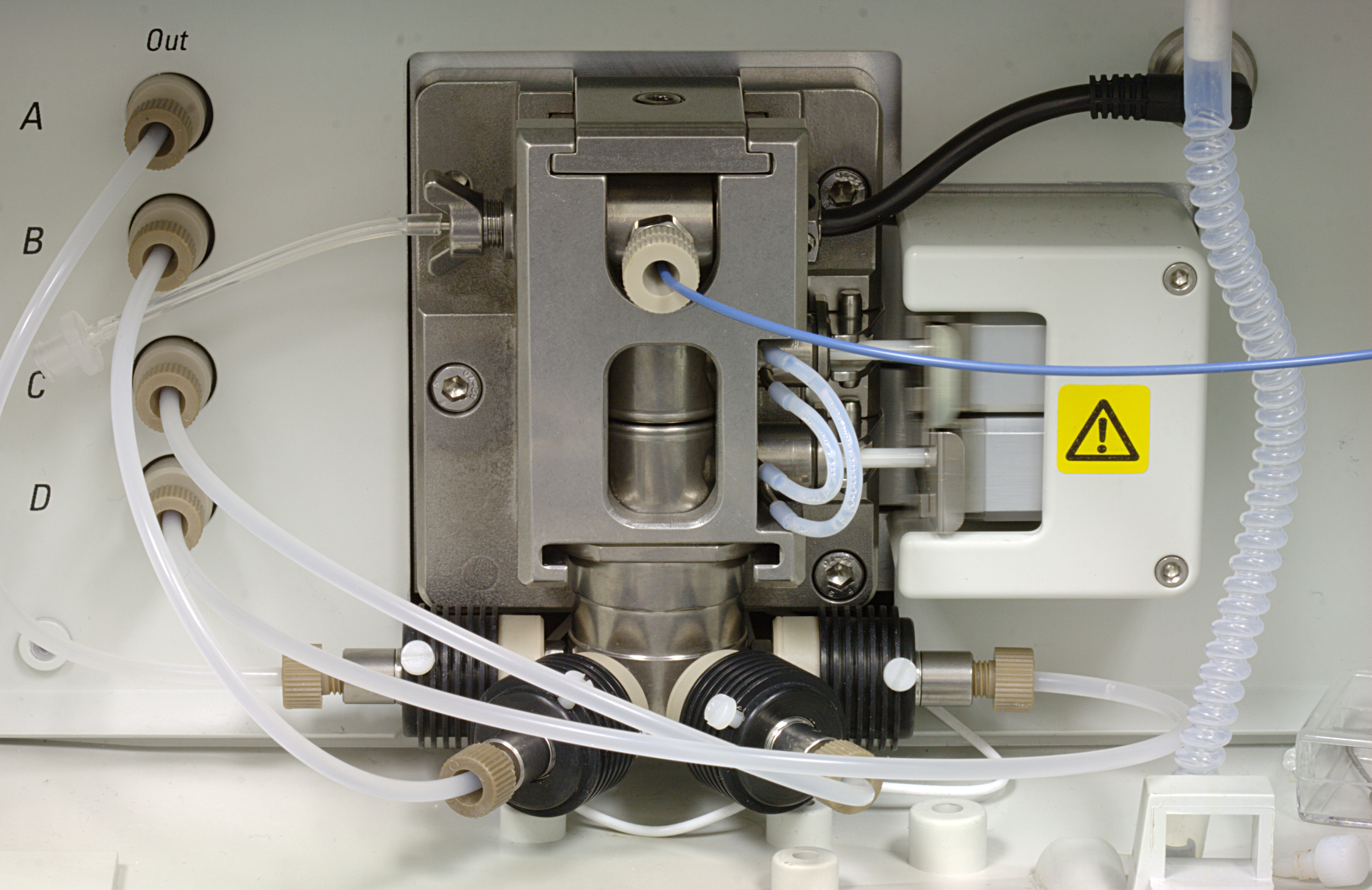 an HPLC pump